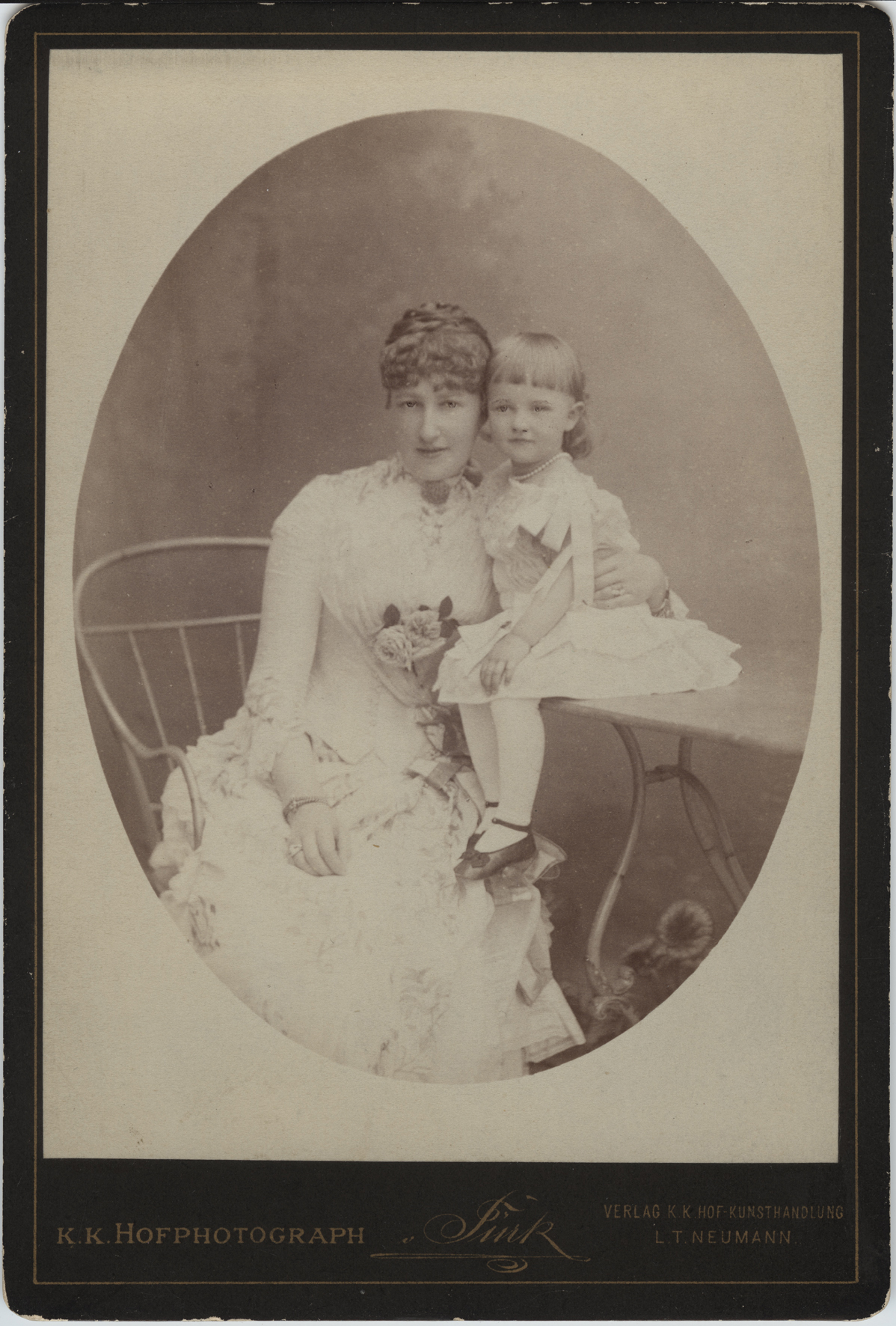 Stéphanie of Belgium and her daughter Elisabeth